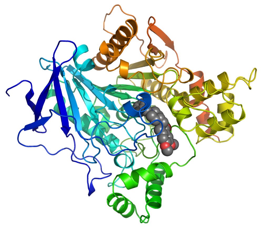 Cartoon diagram of Pacific electric ray (Torpedo californica) acetylcholinesterase in complex with the inhibitor donepezil.Created using PyMOL ( and GIMP.